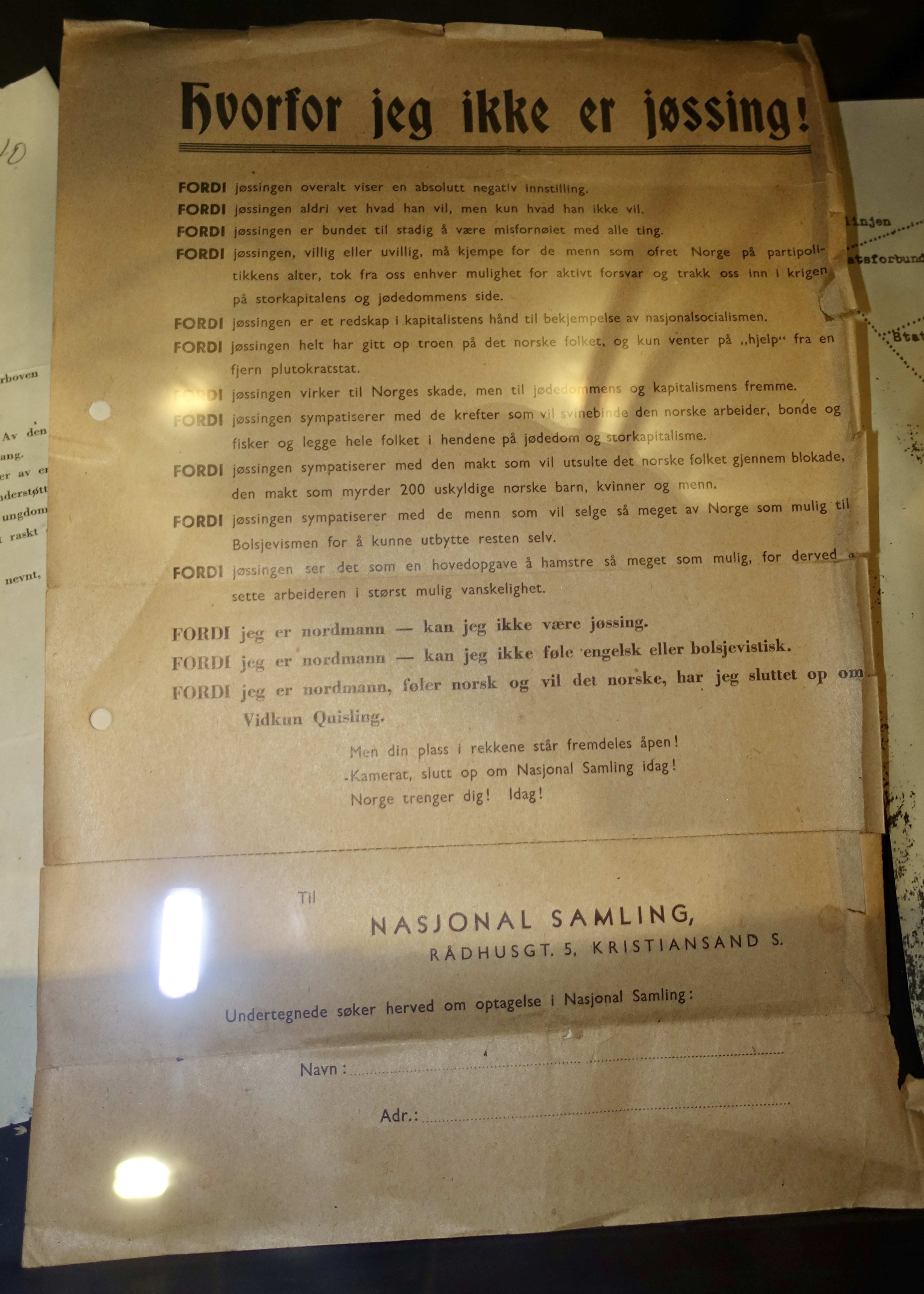 Recruting letter/hand-out for membership in Nasjonal Samling, Quisling's Norwegian Nazi Party in German occupied Norway during World War II. Photograph taken on February 25th, 2020 in the exhibitions of Norway's Resistance Museum in Oslo, Norway.